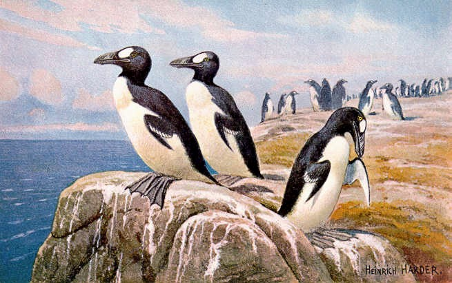 Great Auk. This Painting shows extinct Great Auks (Pinguinus impennis) and was made to illustrate one card of a set of 30 collector cards from "Tiere der Urwelt" (Animals of the Prehistoric World). From the series Ia. The set was inscribed 1916. Alca impennis has now been renamed Pinguinus impennis as it is thought to be in a different genus.